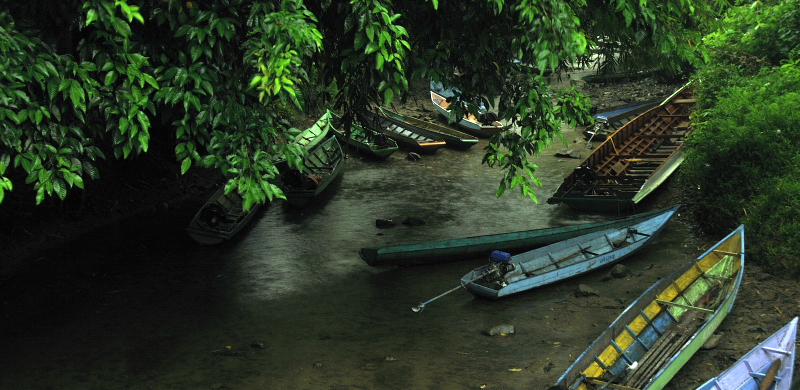 Where Dayak people of Long Pujungan park their boat